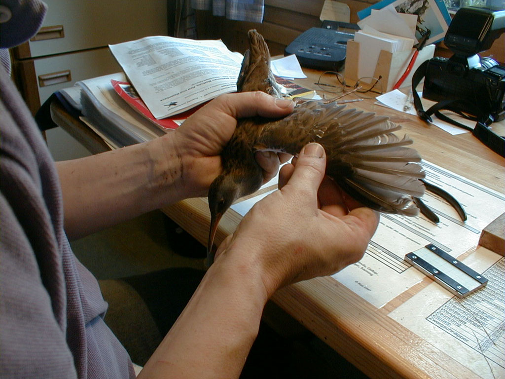 Banding and measuring of a Rallus aquaticus ("water rail")